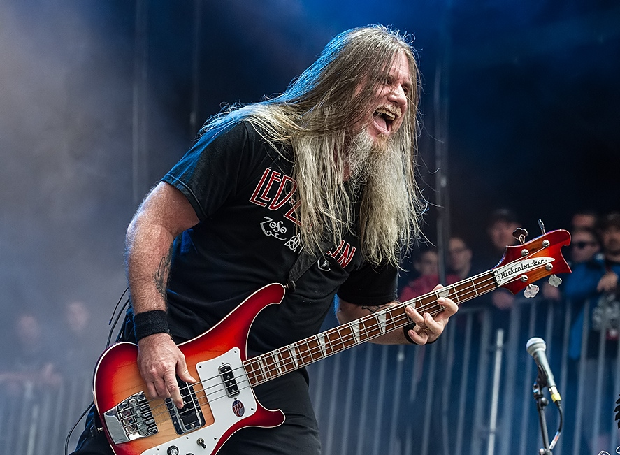 Pat Bruders, bassist of Down, performing live at With Full Force (2013).